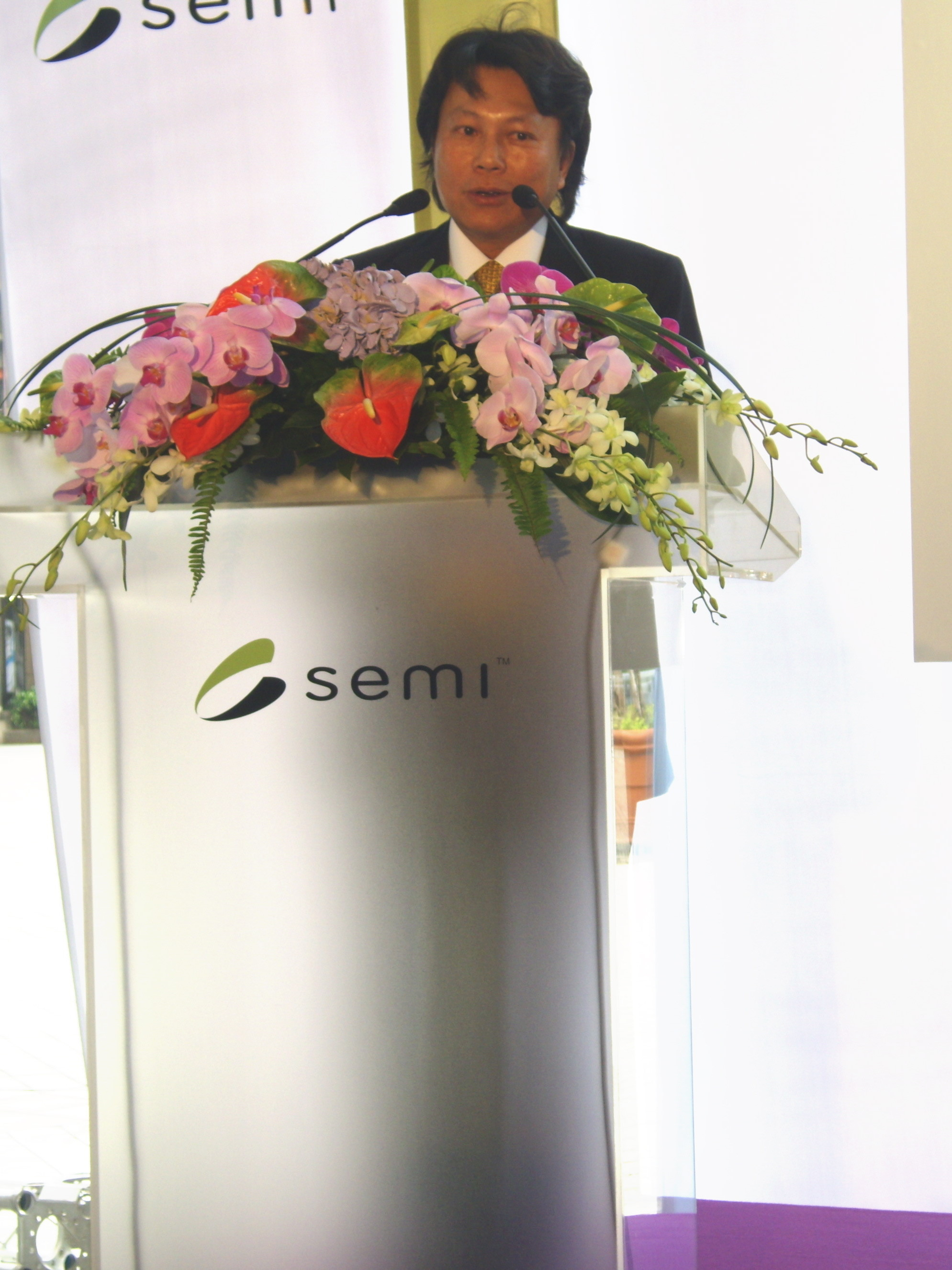 Semicon Taiwan 2007 Opening Ceremony: Archie Hwang, Chairman of Hermes-Epitek Corp.